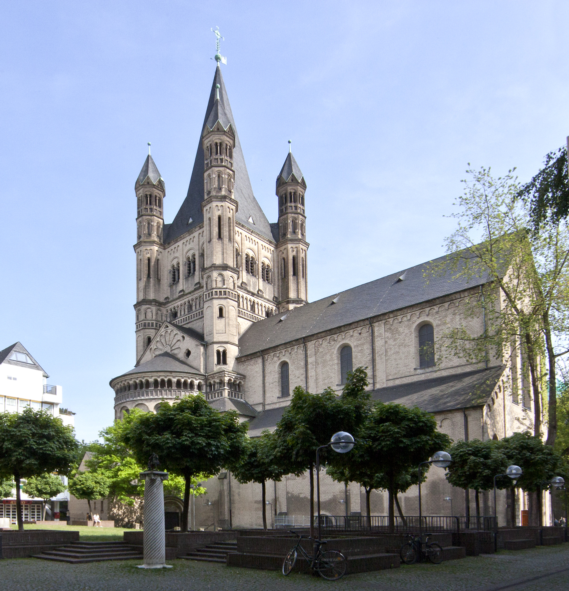 Romanic church Groß St. Martin, Cologne, Germany